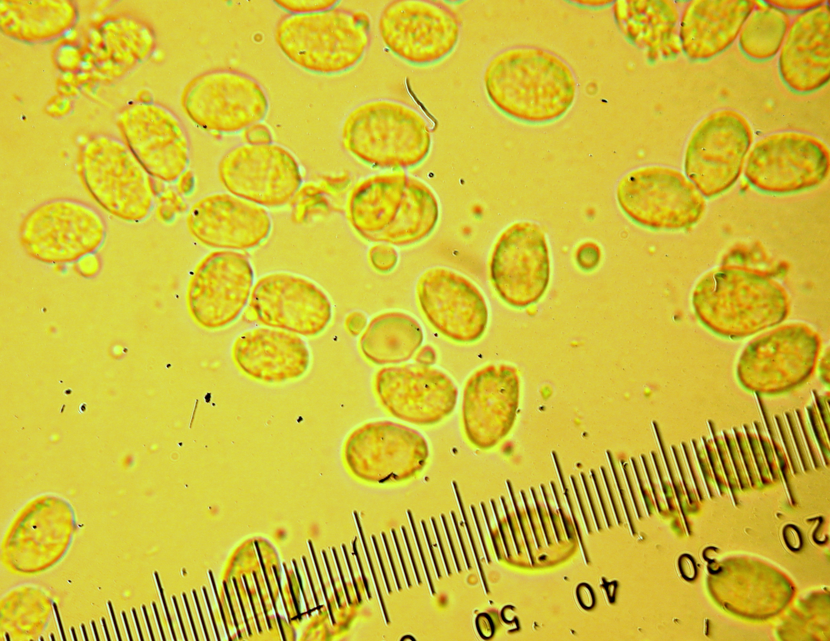 Spore from the agaric fungus Tricholoma vernaticum Shanks.